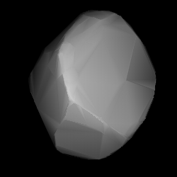 3D convex shape model of 1958 Chandra, computed using light curve inversion techniques. J. Hanuš, J. Ďurech, M. Brož, B. D. Warner (June 2011). "A study of asteroid pole-latitude distribution based on an extended set of shape models derived by the lightcurve inversion method". Astronomy and Astrophysics 530: A134. ISSN 0004-6361. arXiv